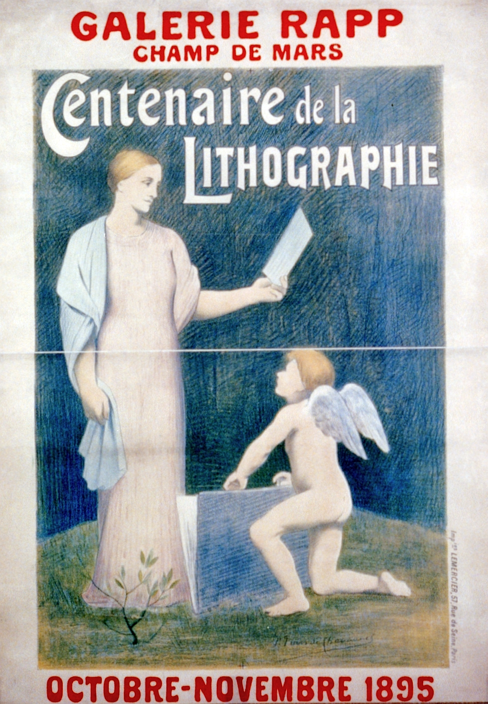 Chromolithograph poster by Pierre Puvis de Chavannes (1824-1898) announcing an exhibit at the Galerie Rapp, Champ de Mars, Paris, for the centennial celebration of the founding of lithography, showing a woman holding a piece of paper and a putti with a large portfolio.